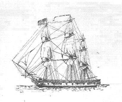 USS Wasp (1814)